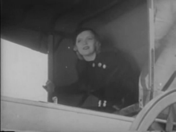 Verna Hillie in The Star Packer, a 1934 film by Robert N. Bradbury